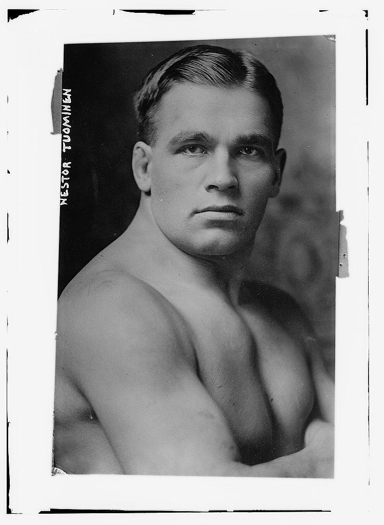 Nestor Tuominen (LOC). Bain News Service, publisher. Nestor Tuominen 1 negative : glass ; 5 x 7 in. or smaller. Notes: Title from data provided by the Bain News Service on the negative. Photo shows Finnish wrestler Nestor Tuominen who won the 1911 World Wrestling Championship in Greco-Roman wrestling. (Source: Flickr Commons project, 2008) Forms part of: George Grantham Bain Collection (Library of Congress).